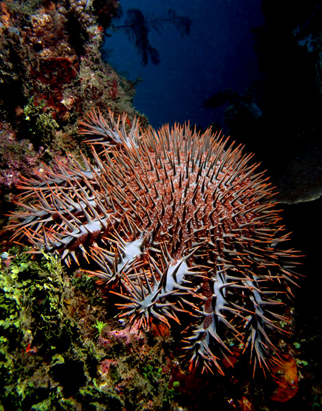 Crown of thorns starfish (Acanthaster planci) in East Timor